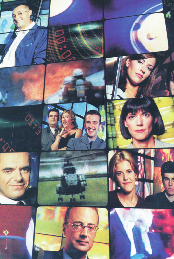 Euskal Irrati Telebista